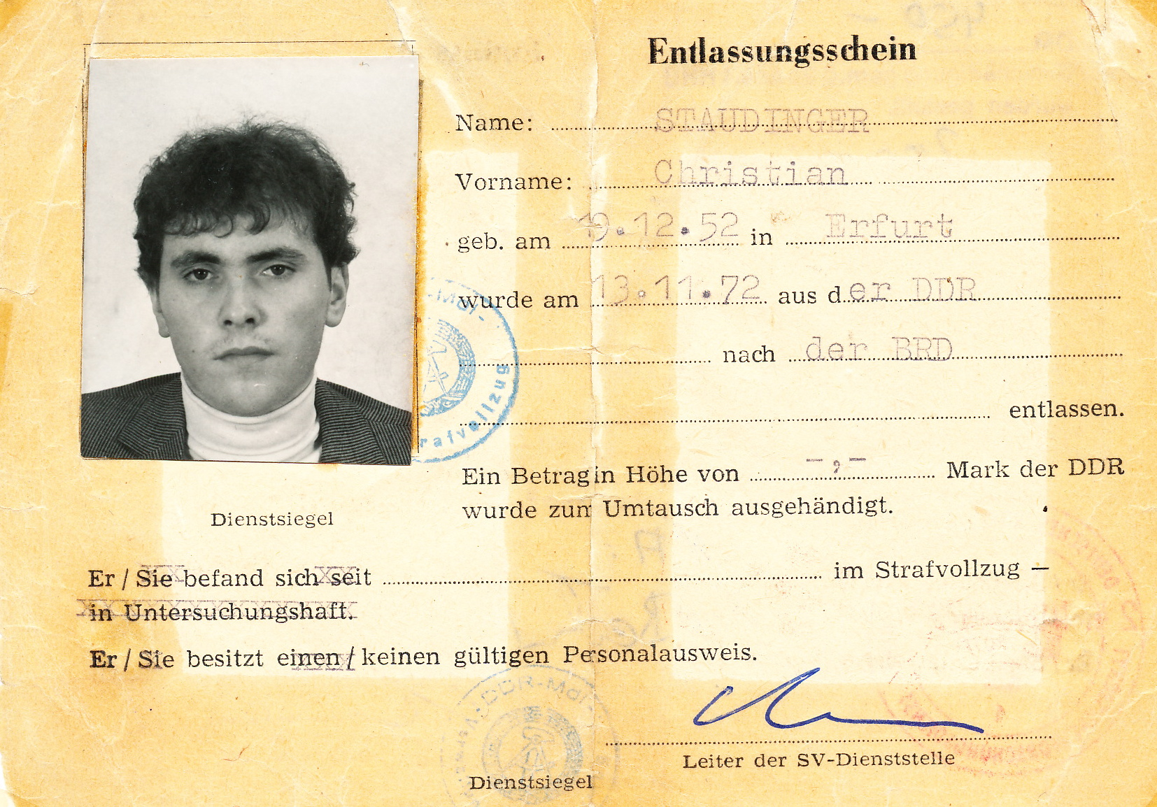 so called Entlassungsschein (a paper, the GDR dismissed people from citizenship) of Christian W. Staudinger